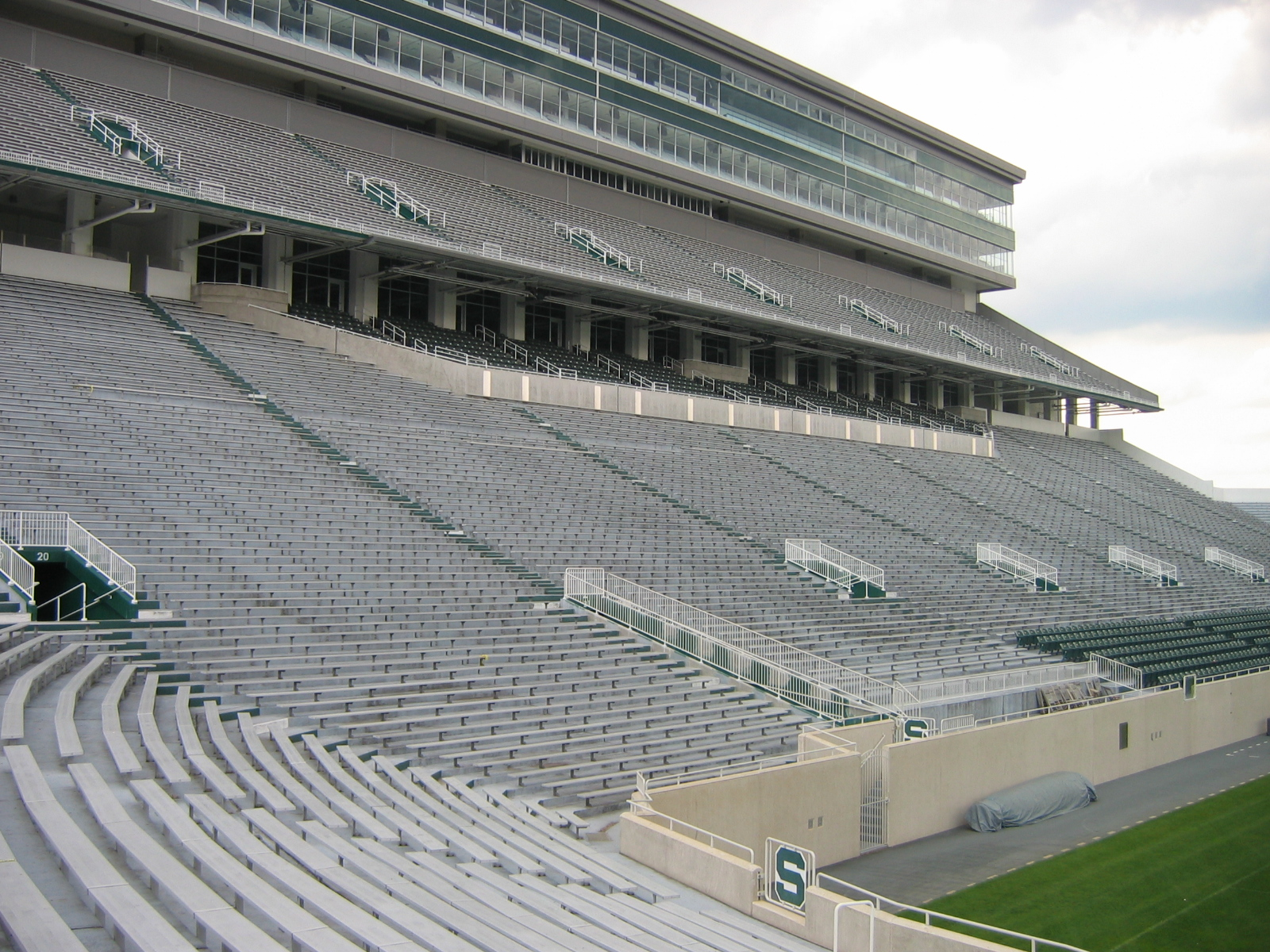 Football Facilities Michigan State Football Stadium